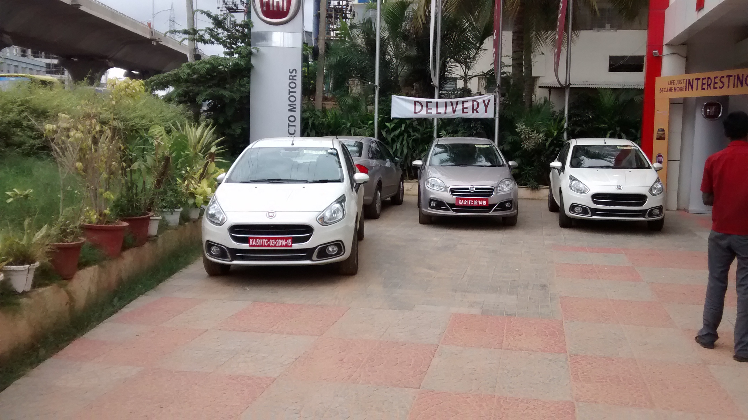 Fiat Punto Evo 2014 at a dealership in Bangalore.